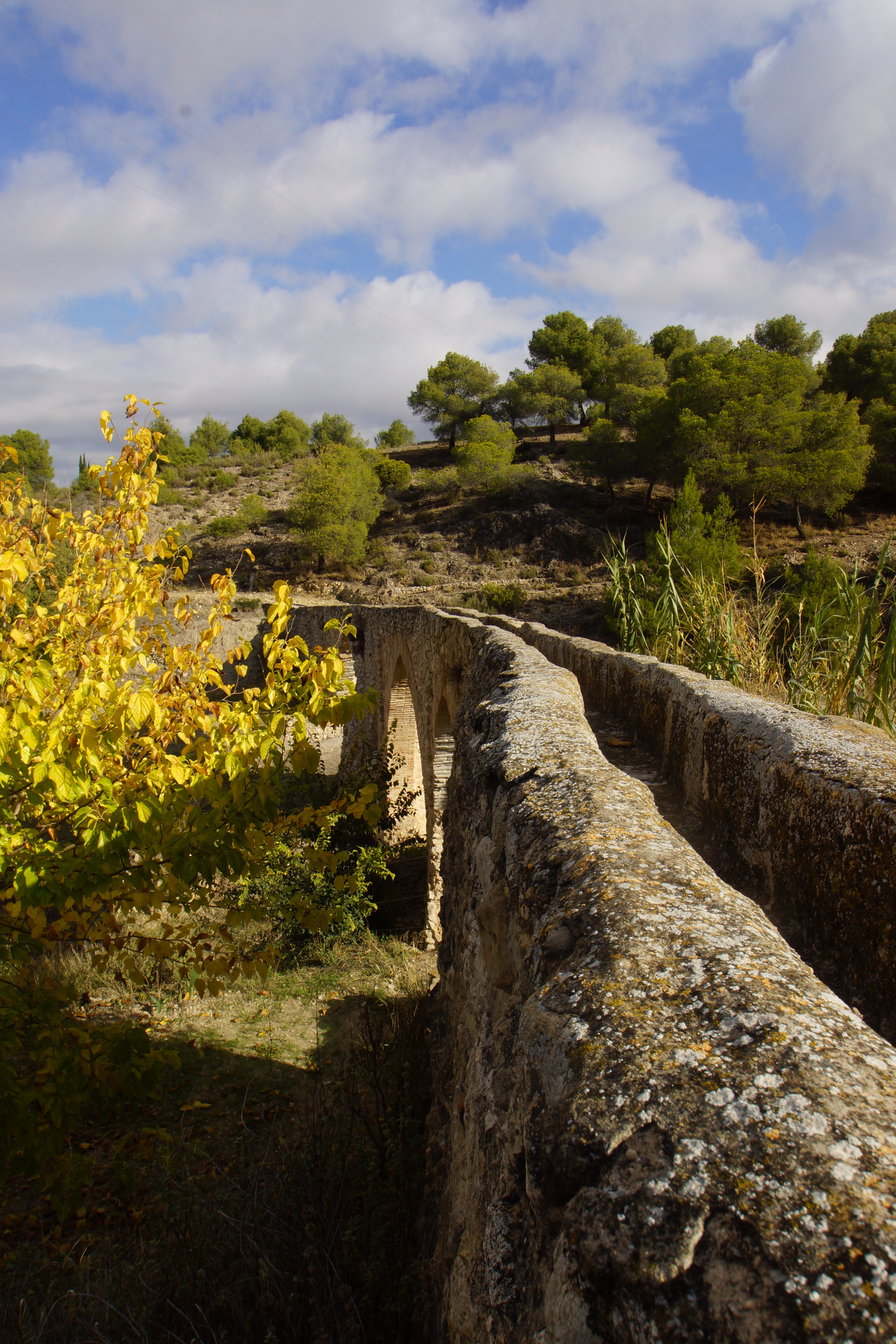 Biar, Valencian Country: Aqueduct, from the upper side